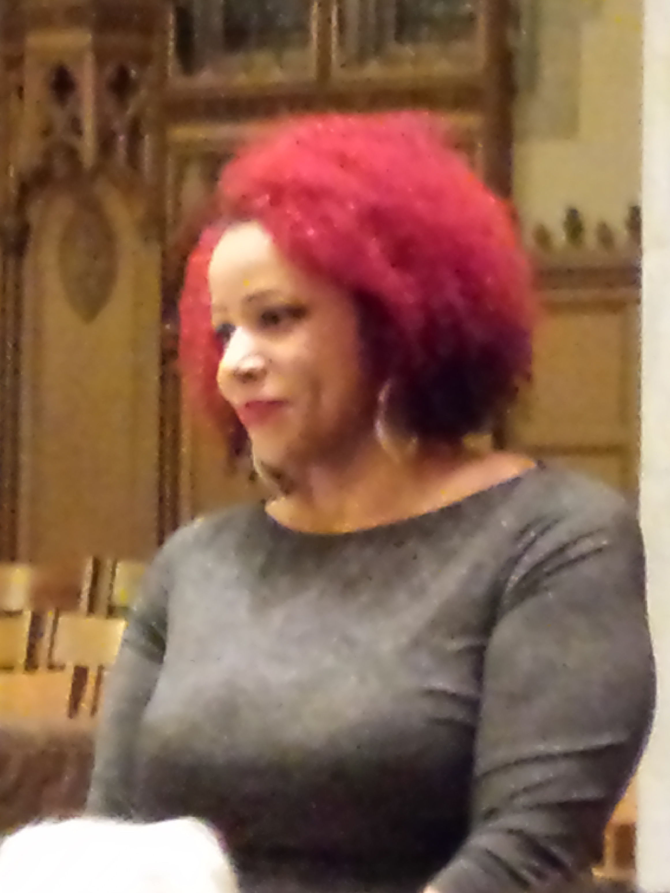 Nikole Hannah-Jones speaking with attendees after her "Great Schools Are Diverse Schools" talk at the Third Presbyterian Church in Rochester, New York